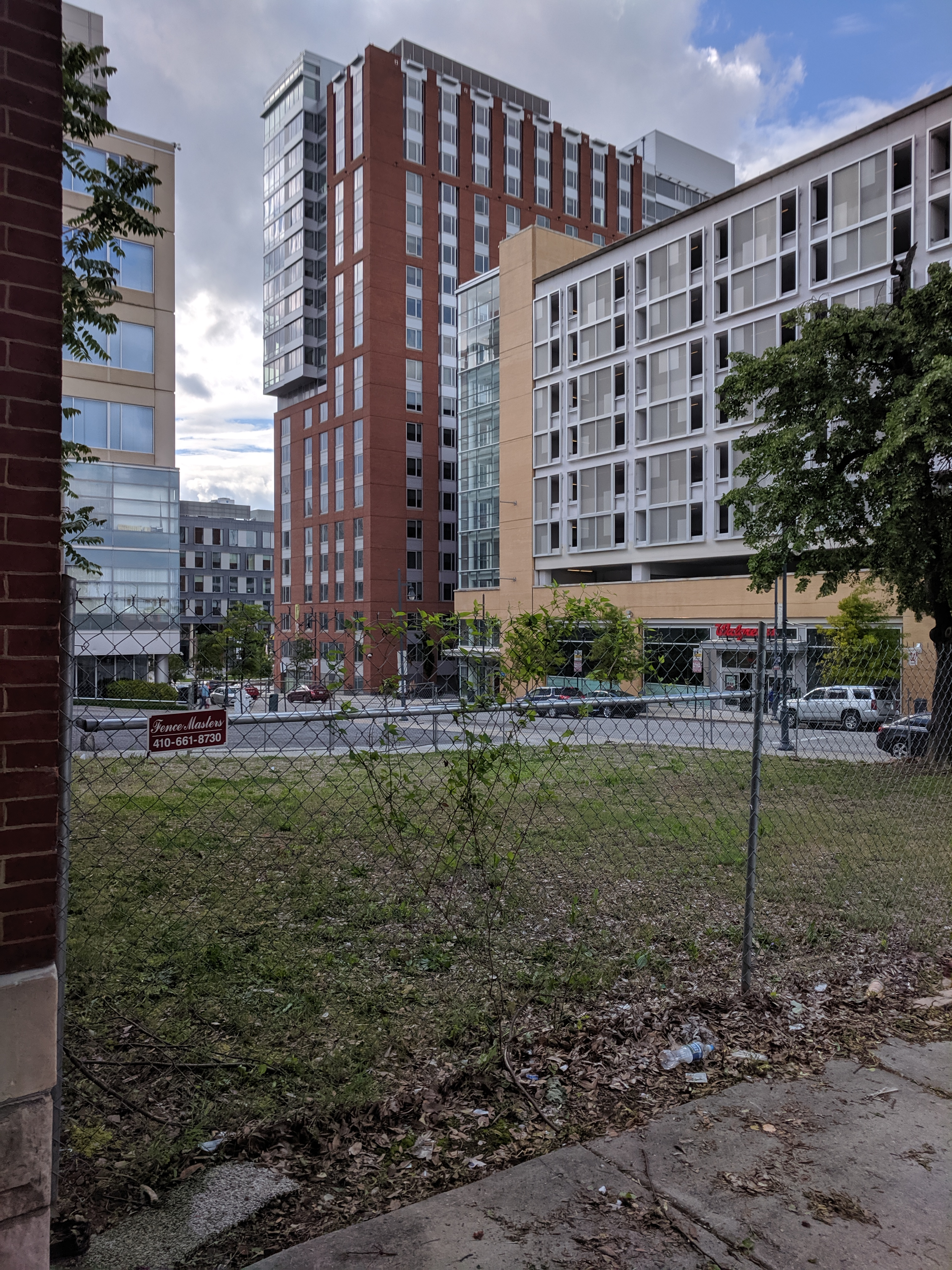 The intersection of Ashland and Washington in Middle East, Baltimore. In 1898, a church was constructed at this site called Bohemian and Moravian Presbyterian Church. In 1947, the Bohemian and Moravian Church was sold to a black congregation, becoming the Freedom Temple AME Zion Church. In 2016, Johns Hopkins Hospital purchased the building and subsequently demolished it to make way for a medical-related facility.